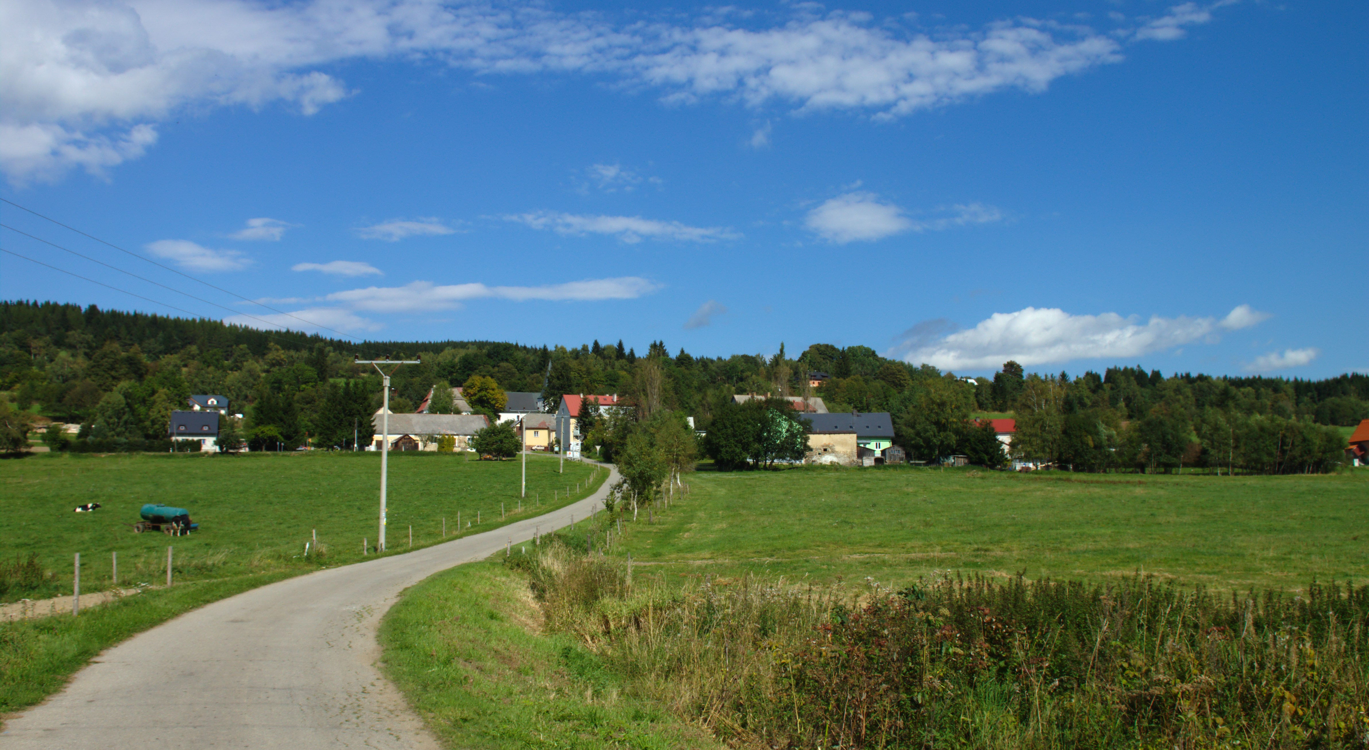 The village of Nicov seen from south